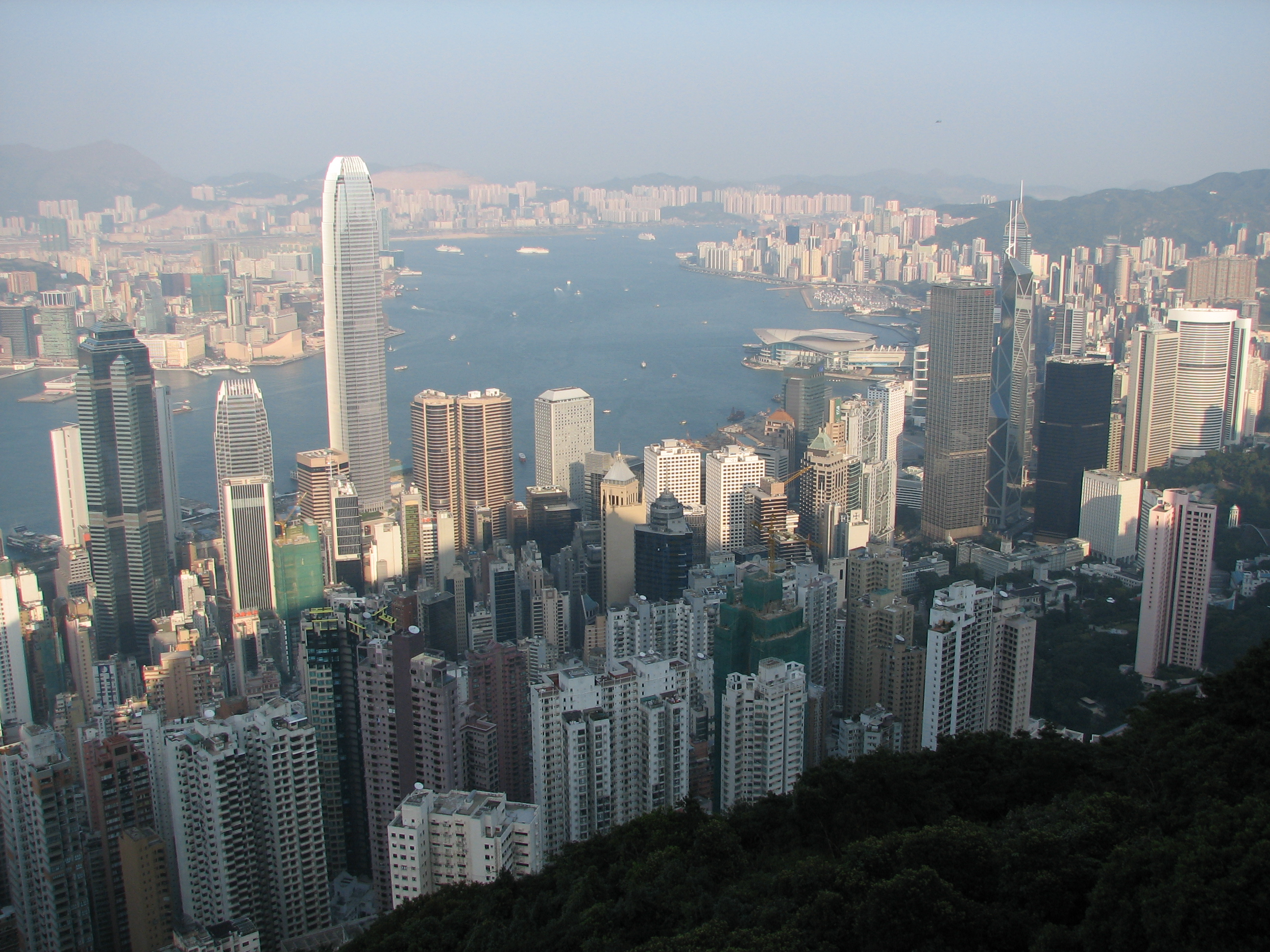 View from The Peak (Lugard Road) at Hong Kong Island and Victoria Harbour. More pictures at Hong Kong 12 t/m 22 november 2005